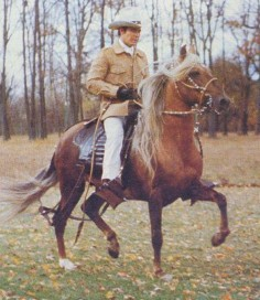 Peruvian Paso Horse. It is typical of the northern Peruvian regions of the country from which he originated. Trujillo city is considered the Cradle of typical Peruvian Paso Horse.